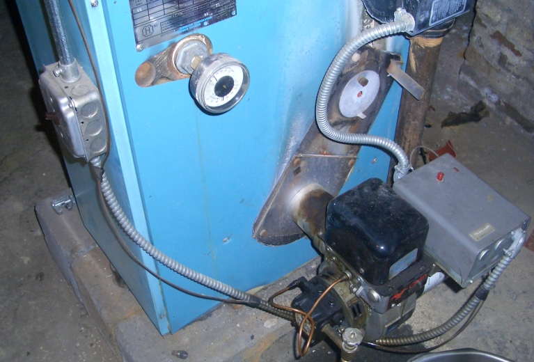 This is an oil furnace used for home heating in the US, this model was made in the 1970's and is still in use today (2006).